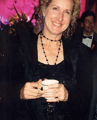 Betty Thomas and Alan Light at the Governor's Ball after the Emmy telecast 9/11/94